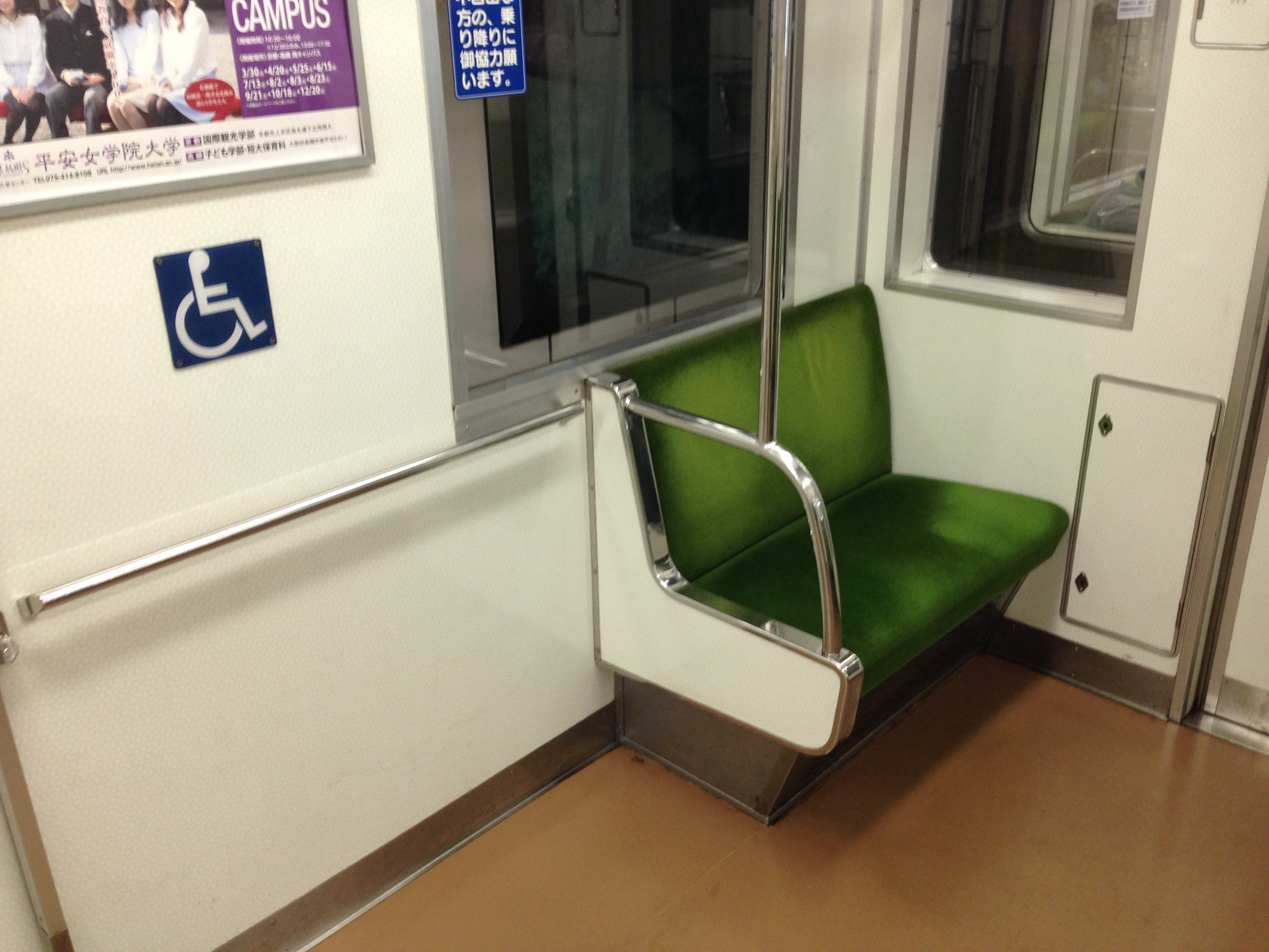 Wheelchair space on Kyoto subway 10 series